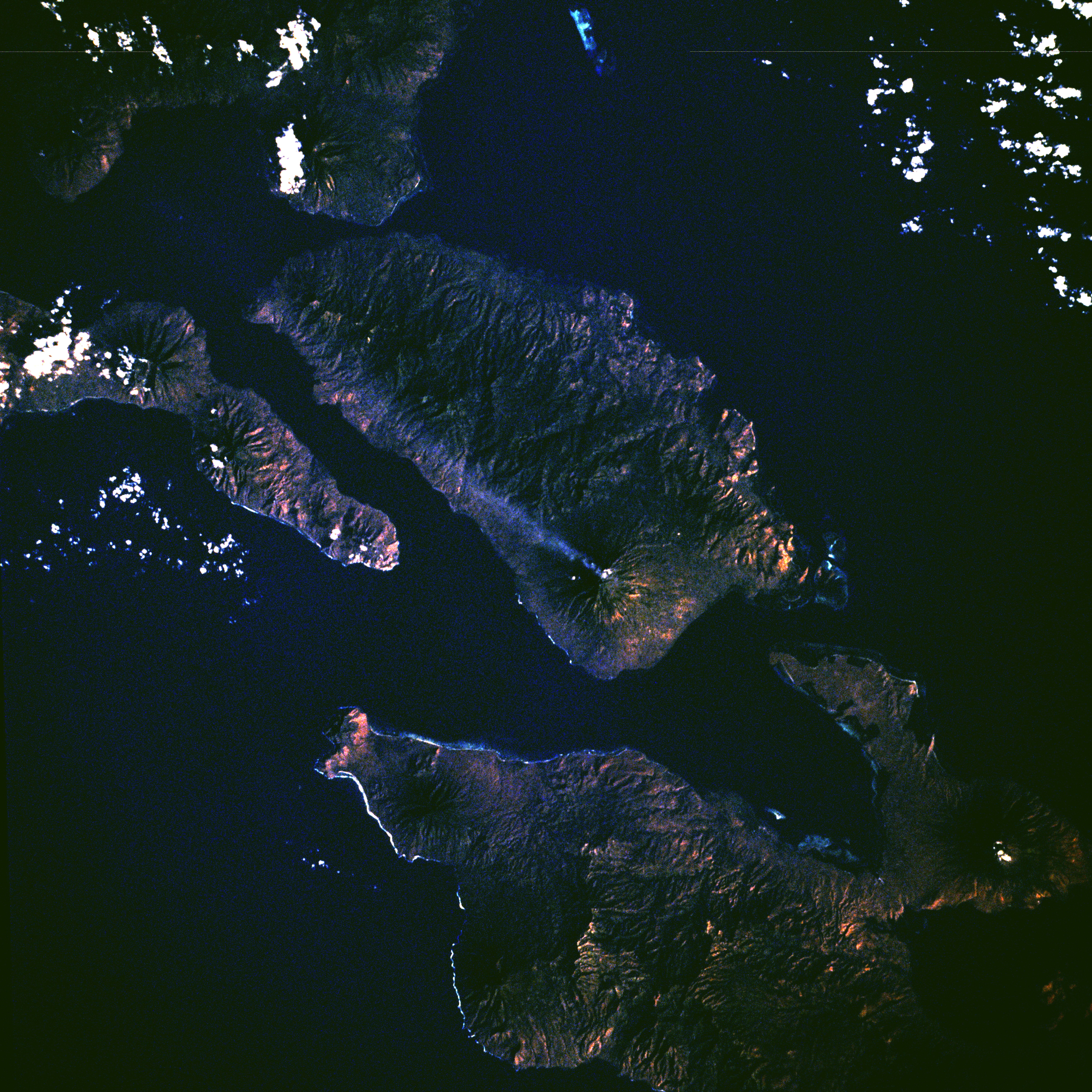 Adonara Island, Indonesia, with eruption plume from Ili Boleng volcano visible. Photographed from Space Shuttle, mission STS008.